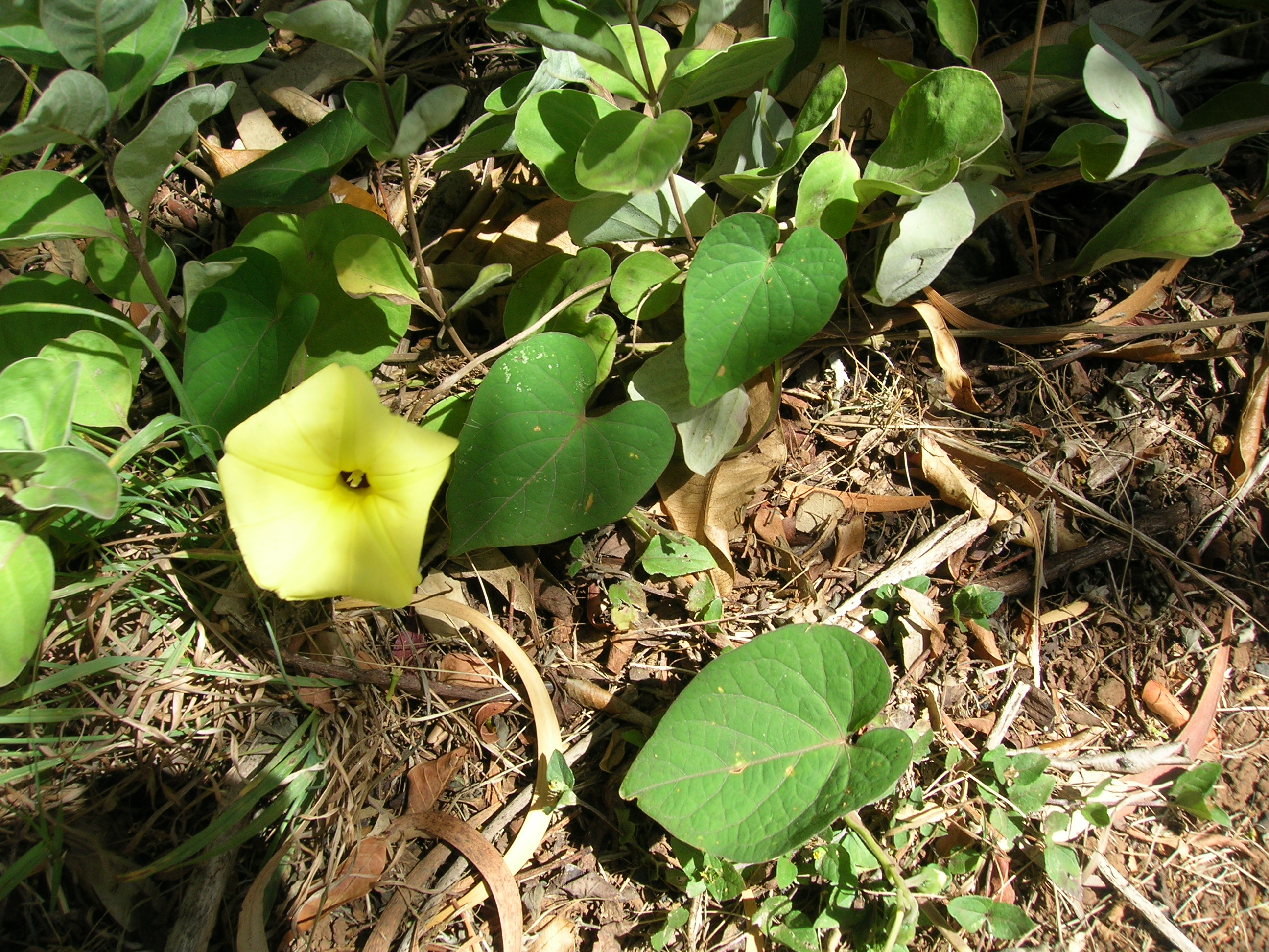 Ipomoea ochracea (flower and leaves). Location: Maui, Makawao